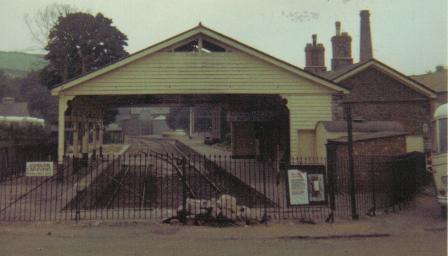 Ashburton railway station in Devon with its typical Brunel roof in 1969.